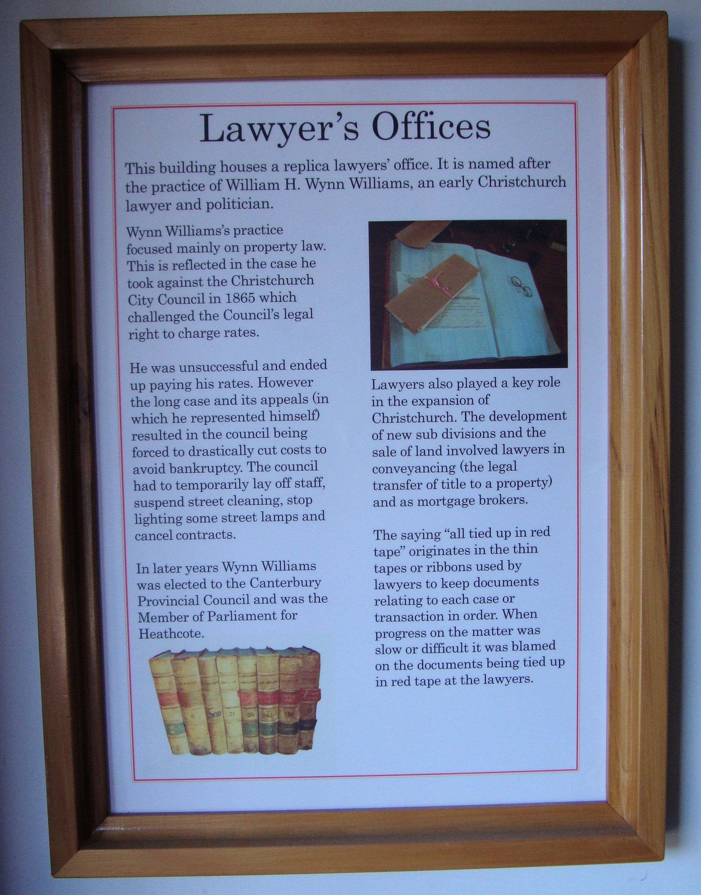 Infoboard about William Wynn-William at Ferrymead Historic Park.